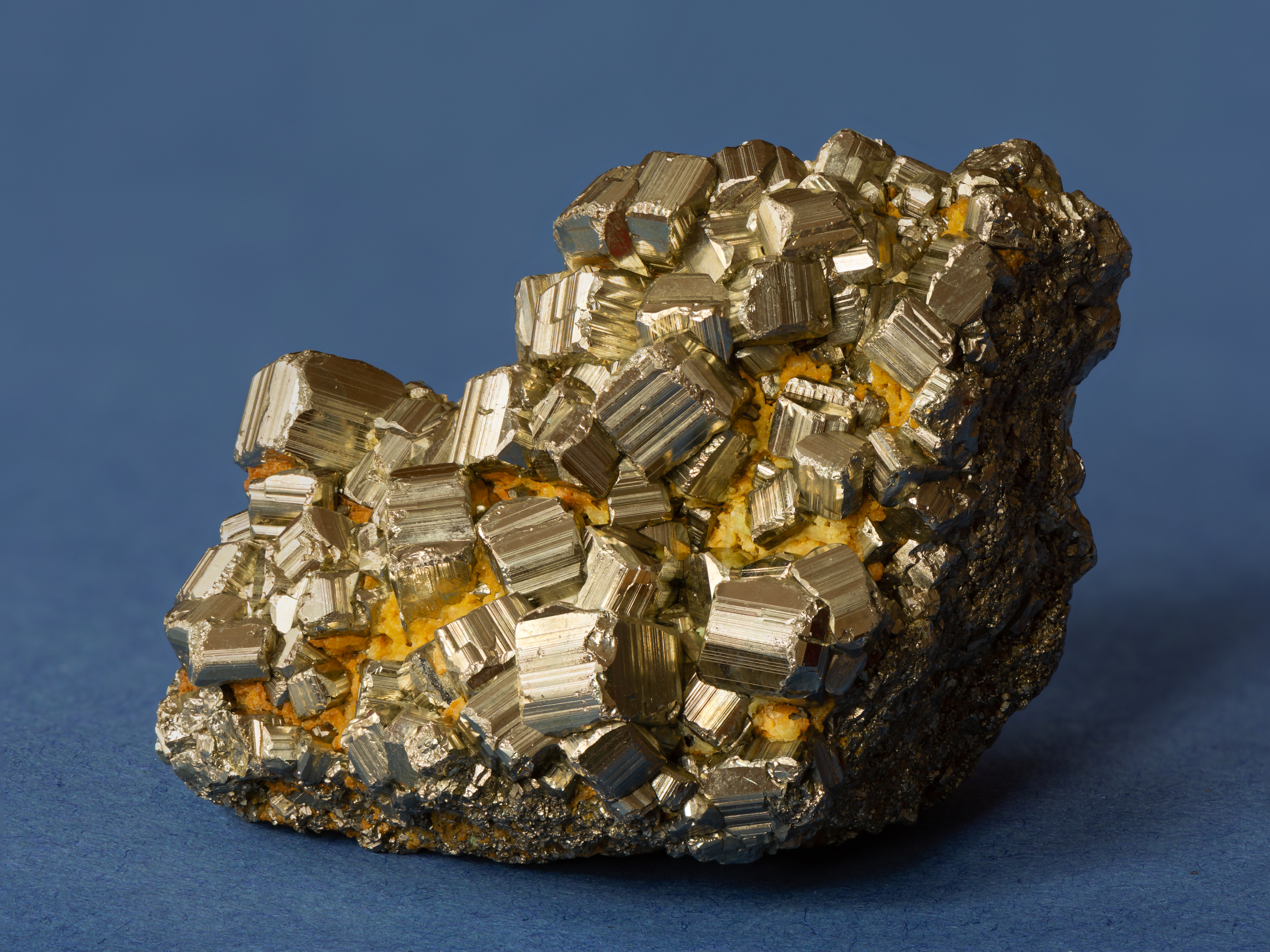 Pyrite (Fool's Gold). The maximum diameter of this specimen is 52 millimetres (2.0 in).